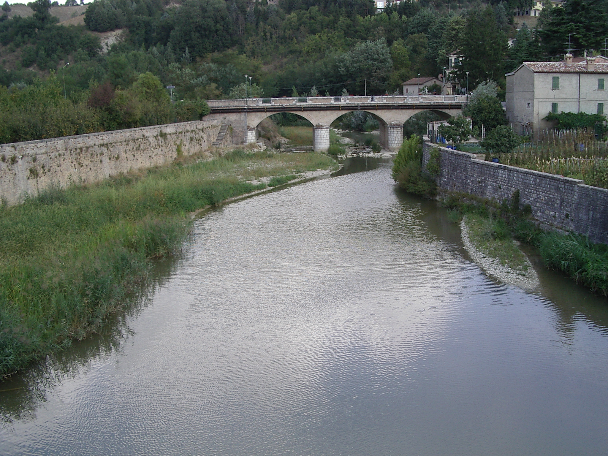 The river Metauto San Angelo in Vado Italy